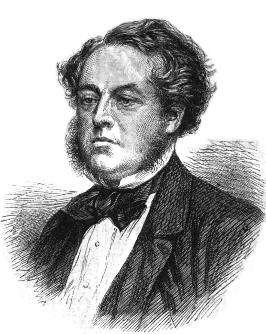 Portrait of Richard Atwood Glass (1820–1873), Telegraph Construction and Maintenance Company (Telcon) director.